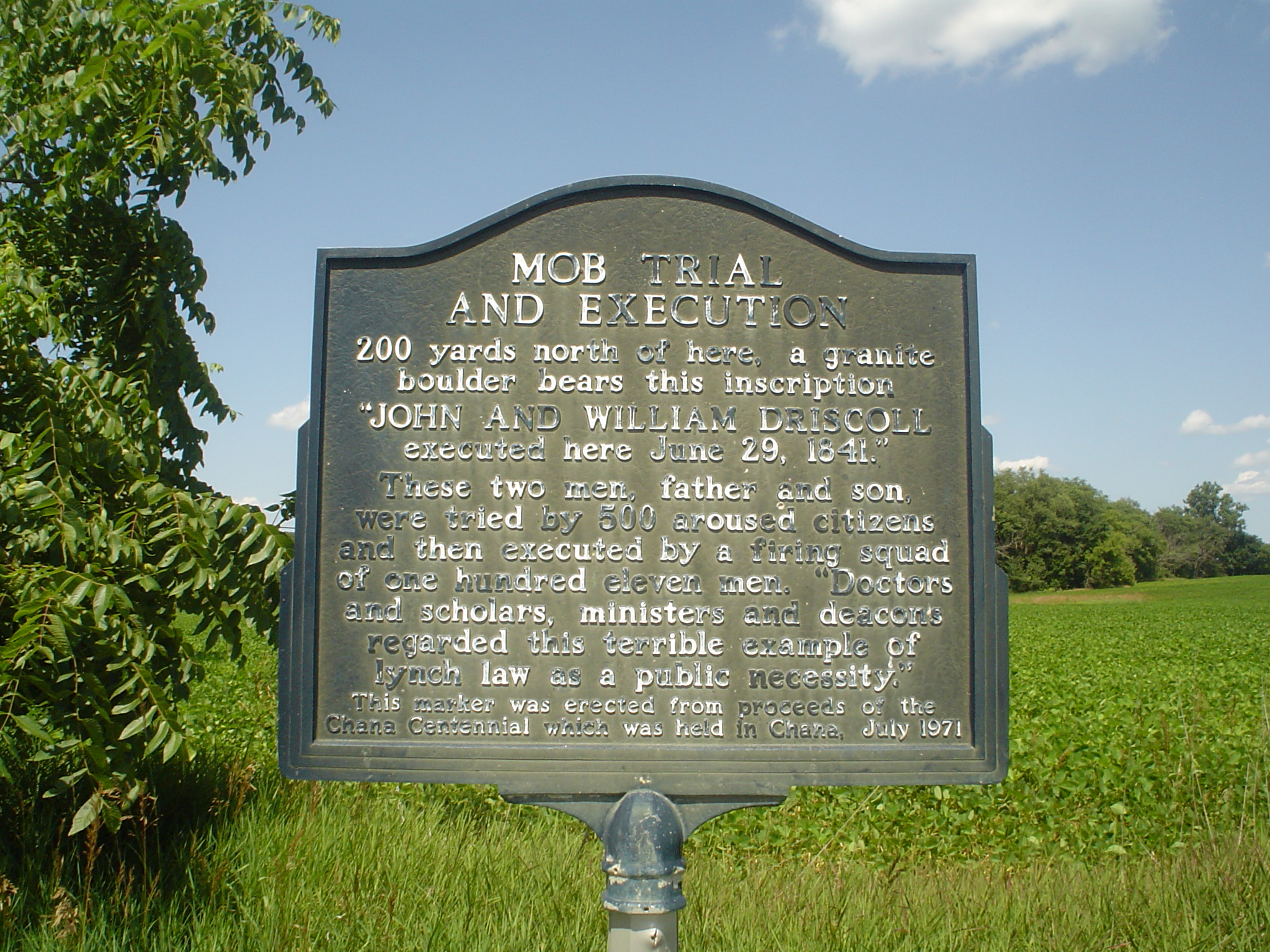 Plaque 200 yards south of where John and William Driscoll were hung. Located between Chana and Daysville, Illinois near 3410 Watertown Road.